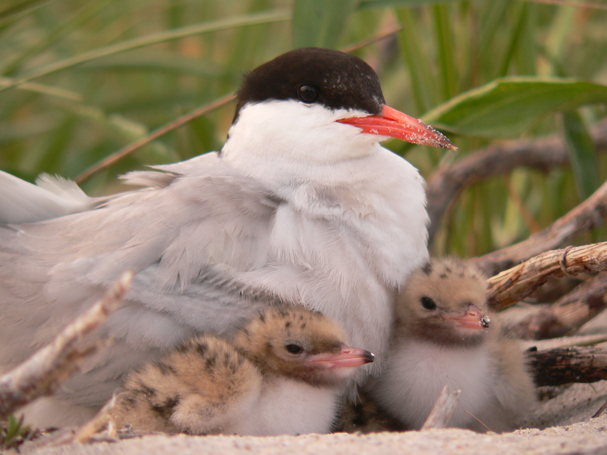 Monomoy National Wildlife Refuge. Credit: USFWS